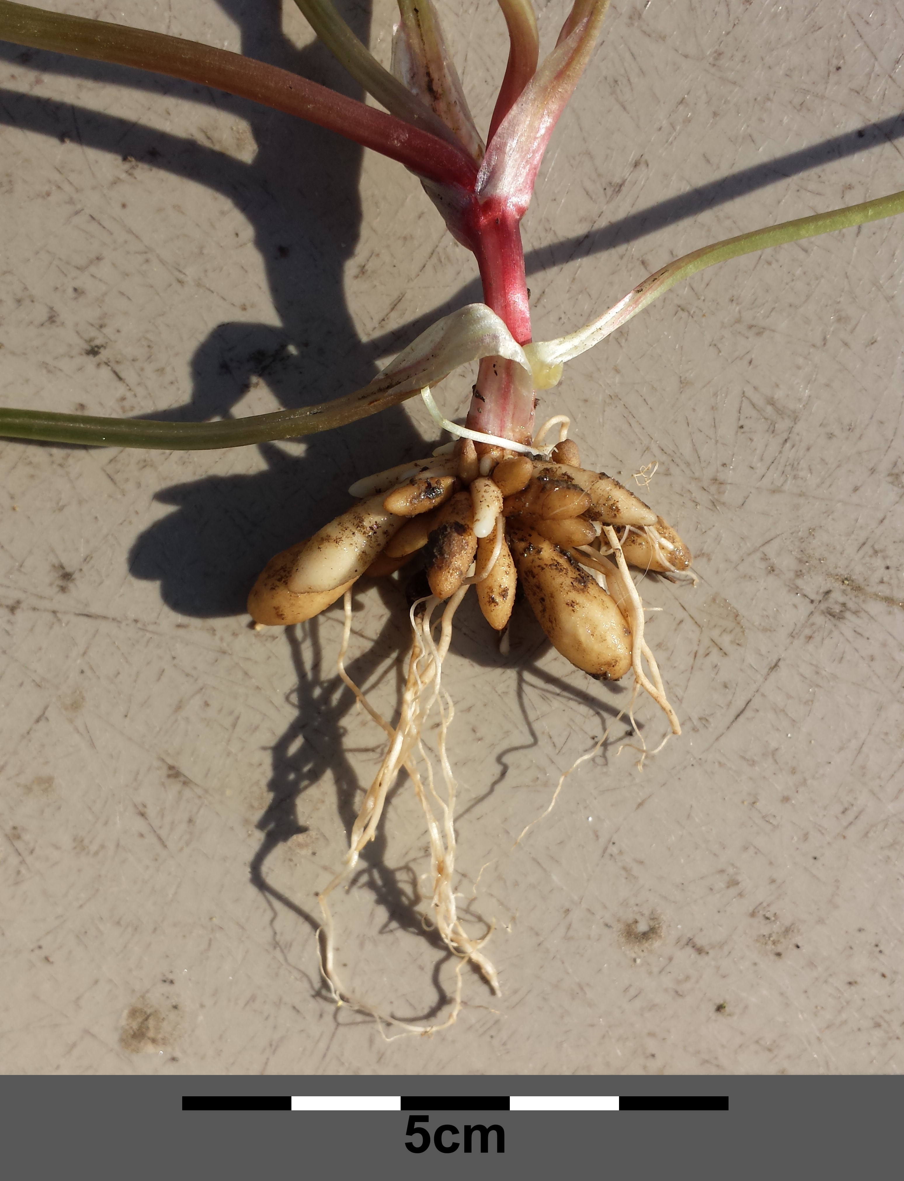 Root tubers Taxonym: Ficaria verna ss Fischer et al. EfÖLS 2008 ISBN 978-3-85474-187-9 Location: near Niederhollabrunn, district Korneuburg, Lower Austria - ca. 350 m a.s.l. Habitat: shrubbery